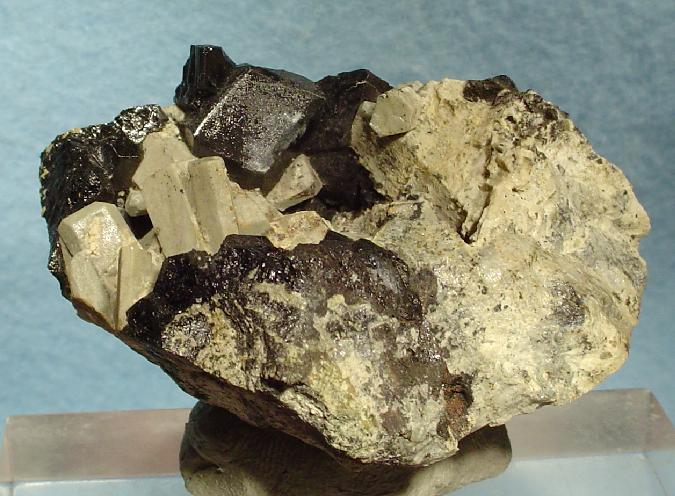 Nepheline, Schorlomite Locality: Bou-Agrao Mt., Tamazeght complex, High Atlas Mts, Khénifra Province, Meknès-Tafilalet Region, Morocco (Locality at ) Size: 6.0 x 4.4 x 3.8 cm. An excellent and uncommon combination specimen from the High Atlas Mountains of Morroco - Bou-Agrao Mt. A large vug is lined with sharp, hexagonal, grayish-white nepheline crystals to 1.8 cm and nicely complimentary, lustrous, jet-black crystals of schorlomite. The textabook, dodechedral crystals reach 1.5 cm. Schorlomite is a rare garnet group member and much of the material labeled "schorlomite" is, strictly speaking, titanian andradite. Excellent, highly representative combination material of the species and locale.